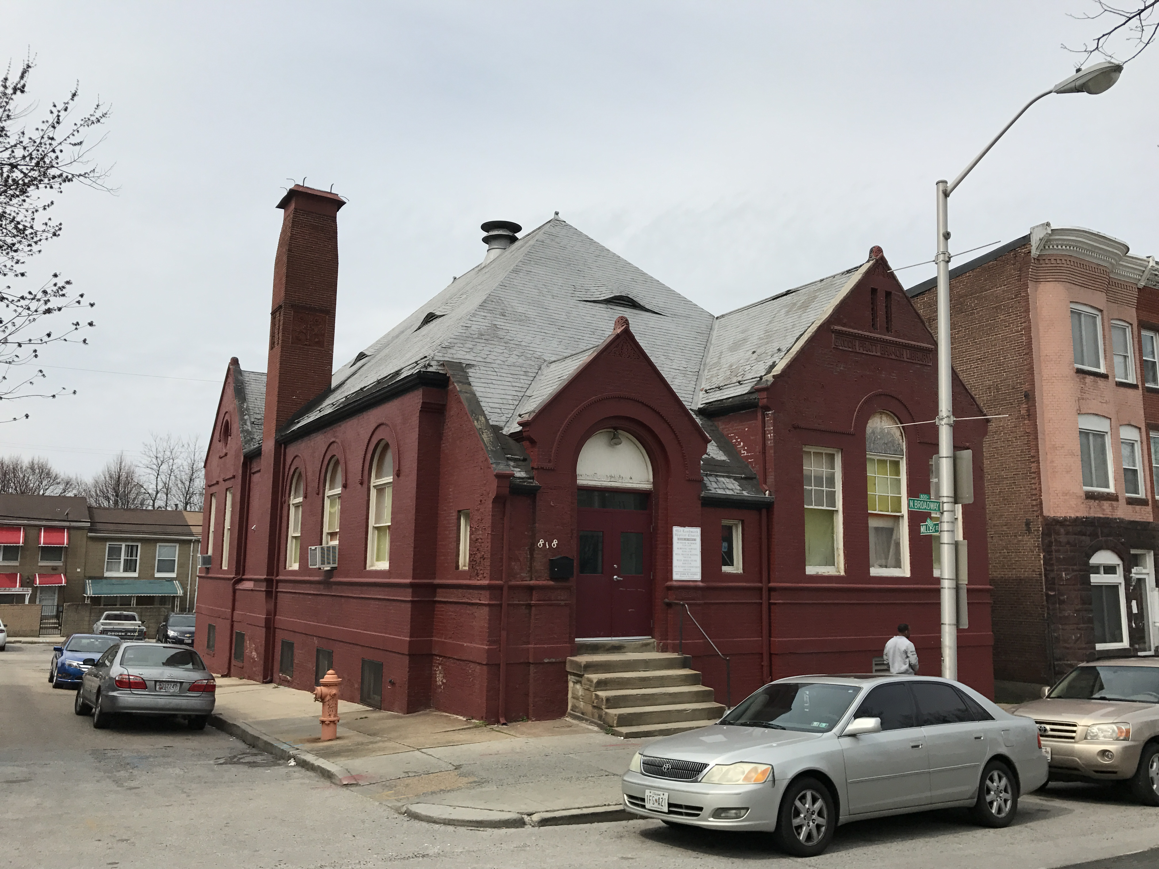 Photograph by Eli Pousson, 2017 March 25.